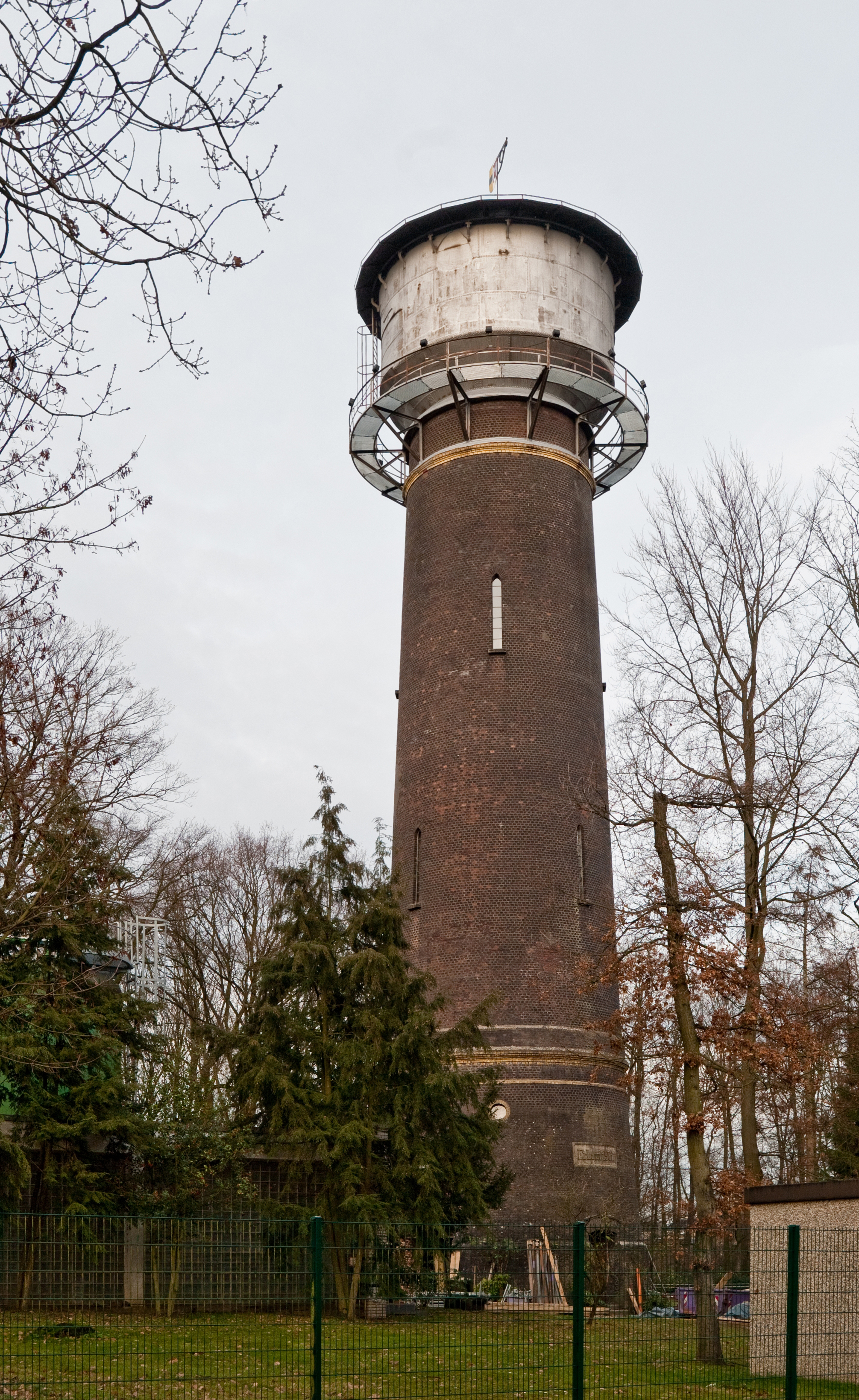 Moers (North Rhine-Westphalia, Germany) – district Vinn – water tower This image shows a heritage building in Germany, located in the North Rhine-Westphalian city Moers (no. 70). This photograph was taken with a Nikon D3000